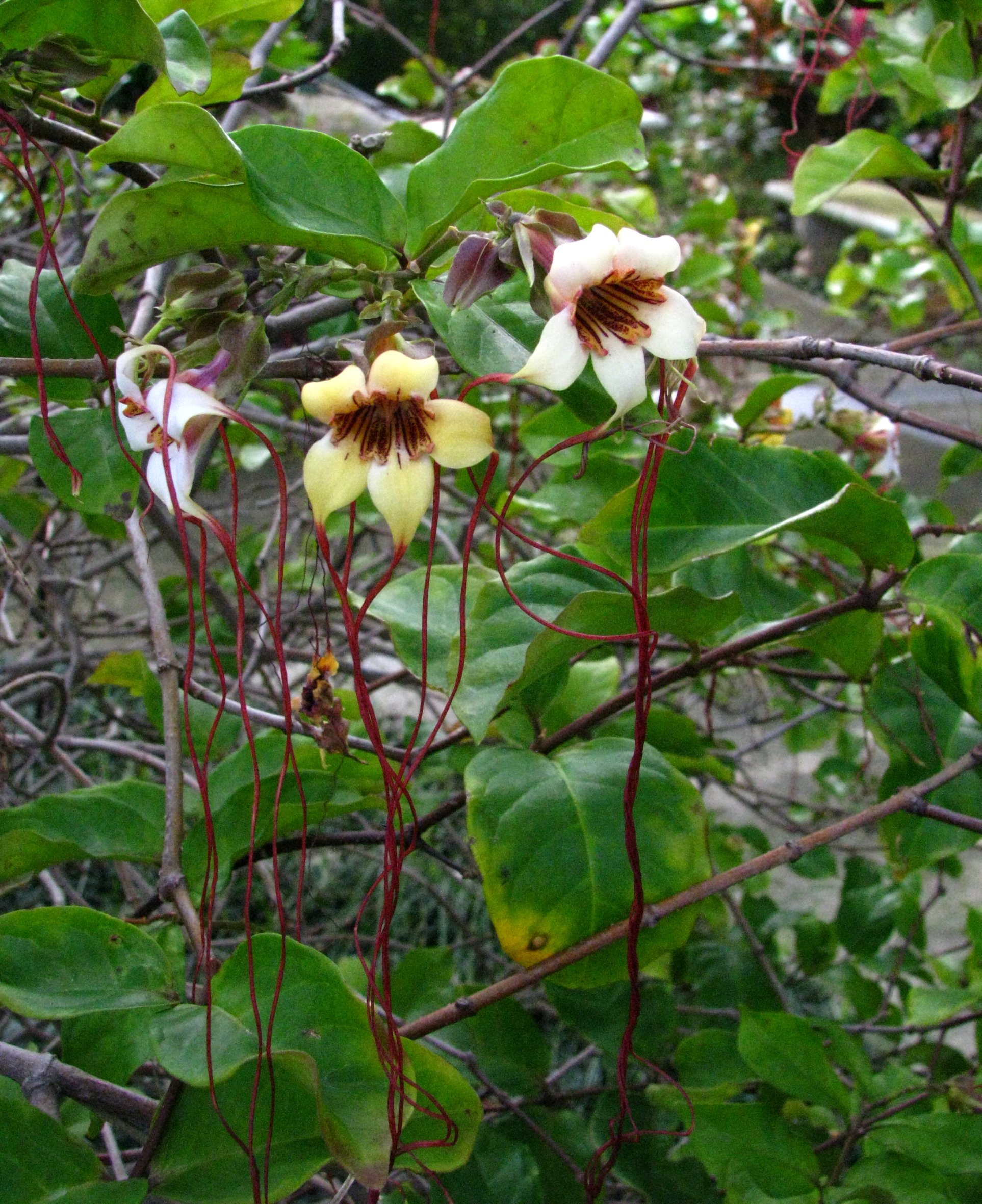 Preuss' Strophanthus Apocynaceae Native to tropical west Africa Oʻahu, Hawaiian Islands, USA (Cultivated)